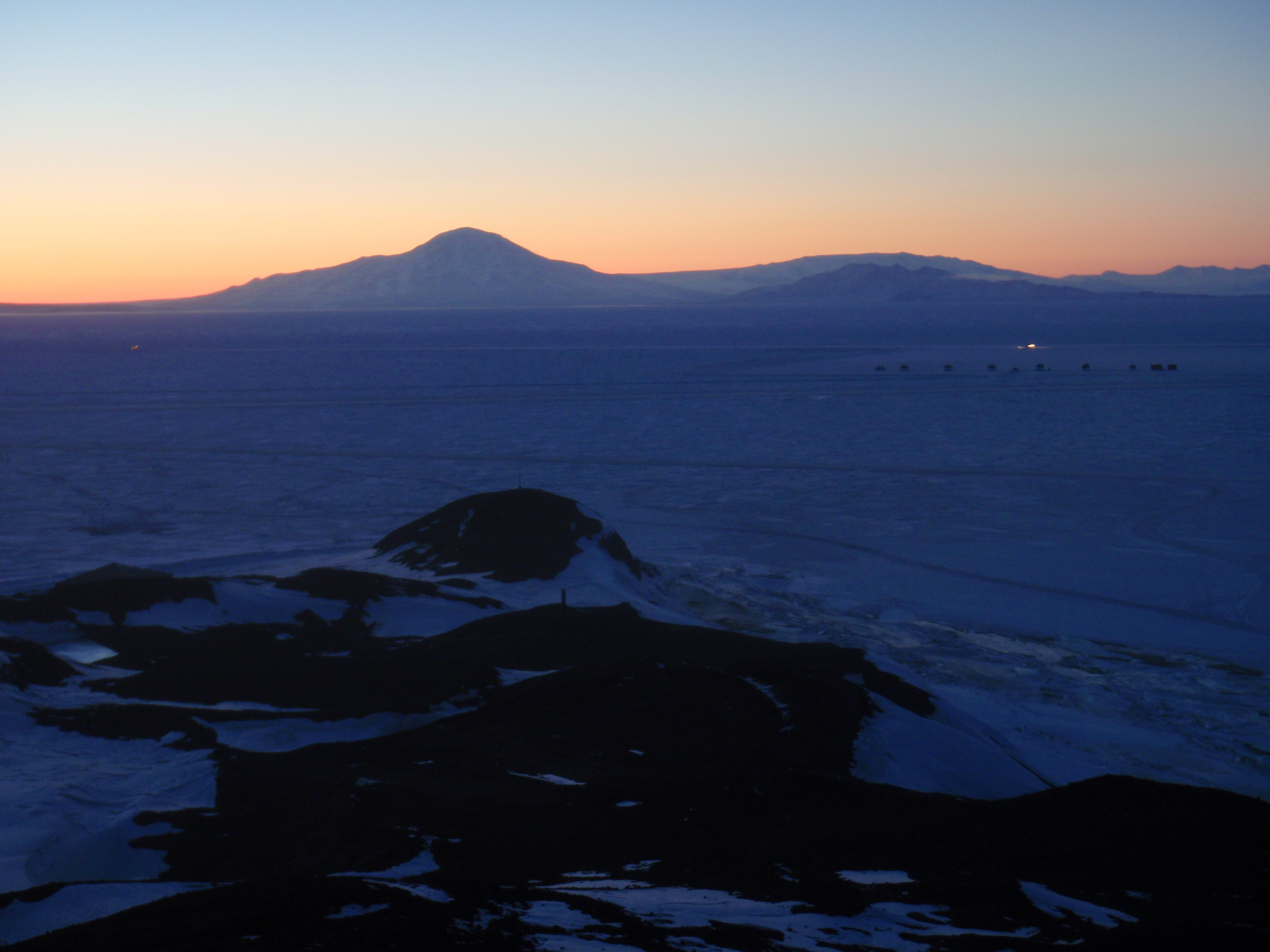 Mt Discovery beyond Hut Point